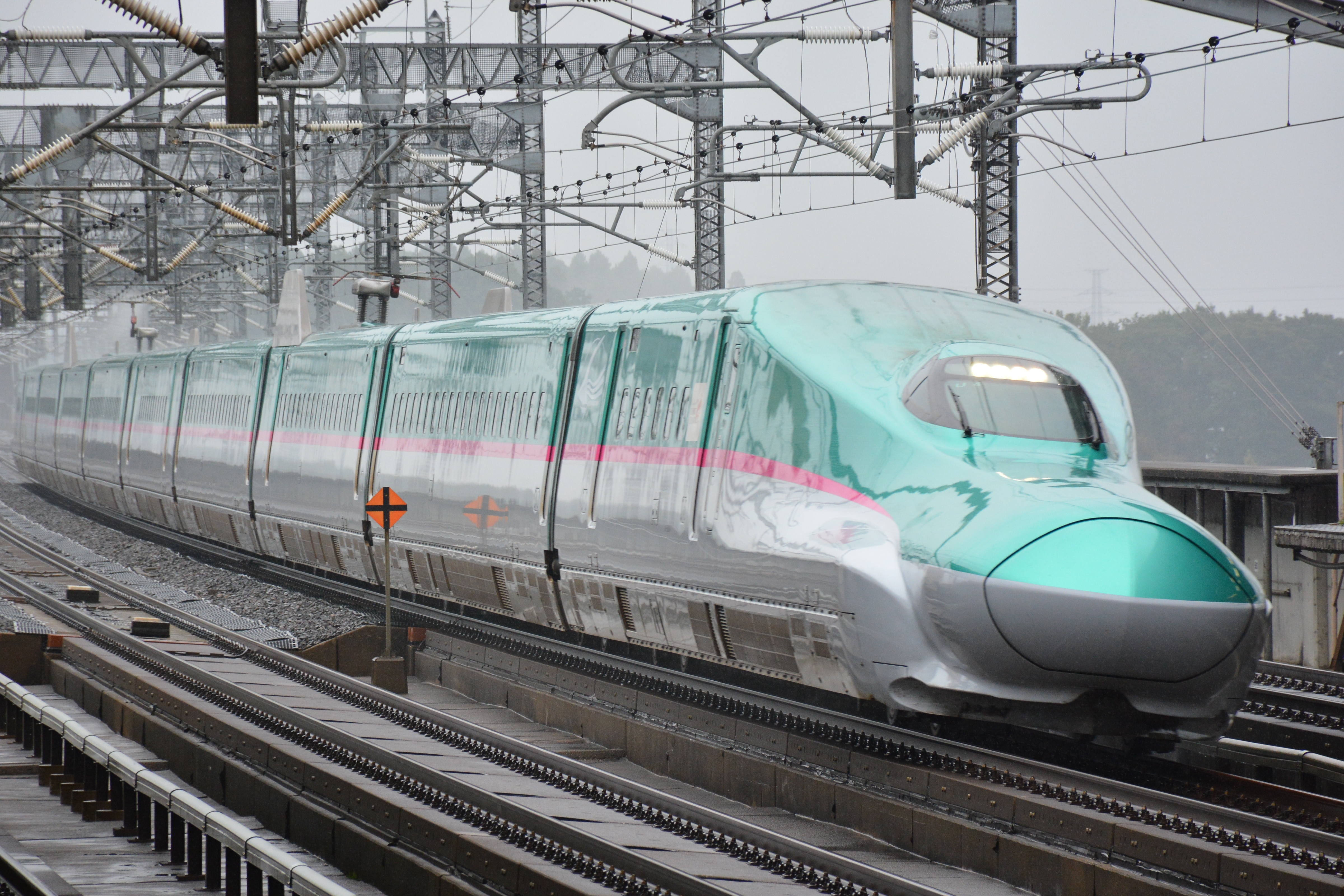 JR East E5 series shinkansen set U4 passing through Nasu-Shiobara Station on the Tohoku Shinkansen